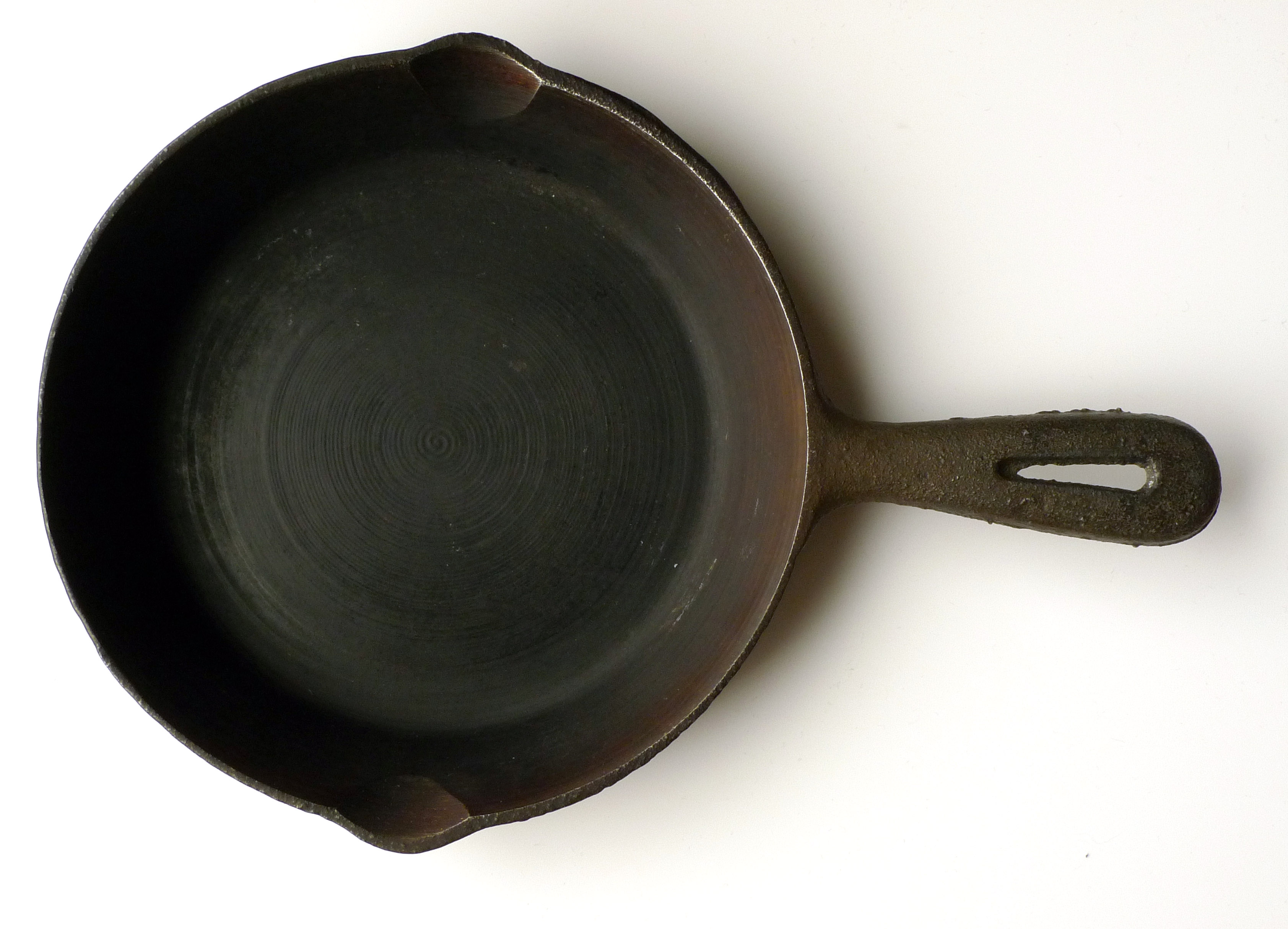 A small cast iron pan.